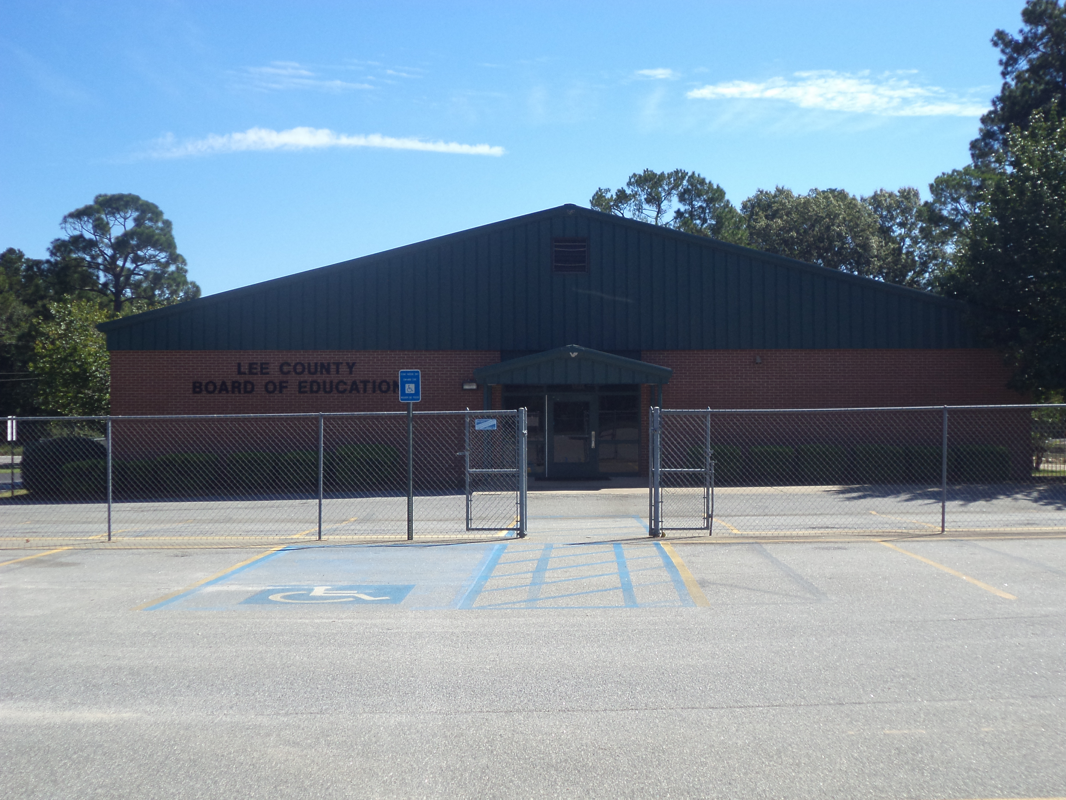 Lee County Board of Education, Leesburg, Lee County, Georgia